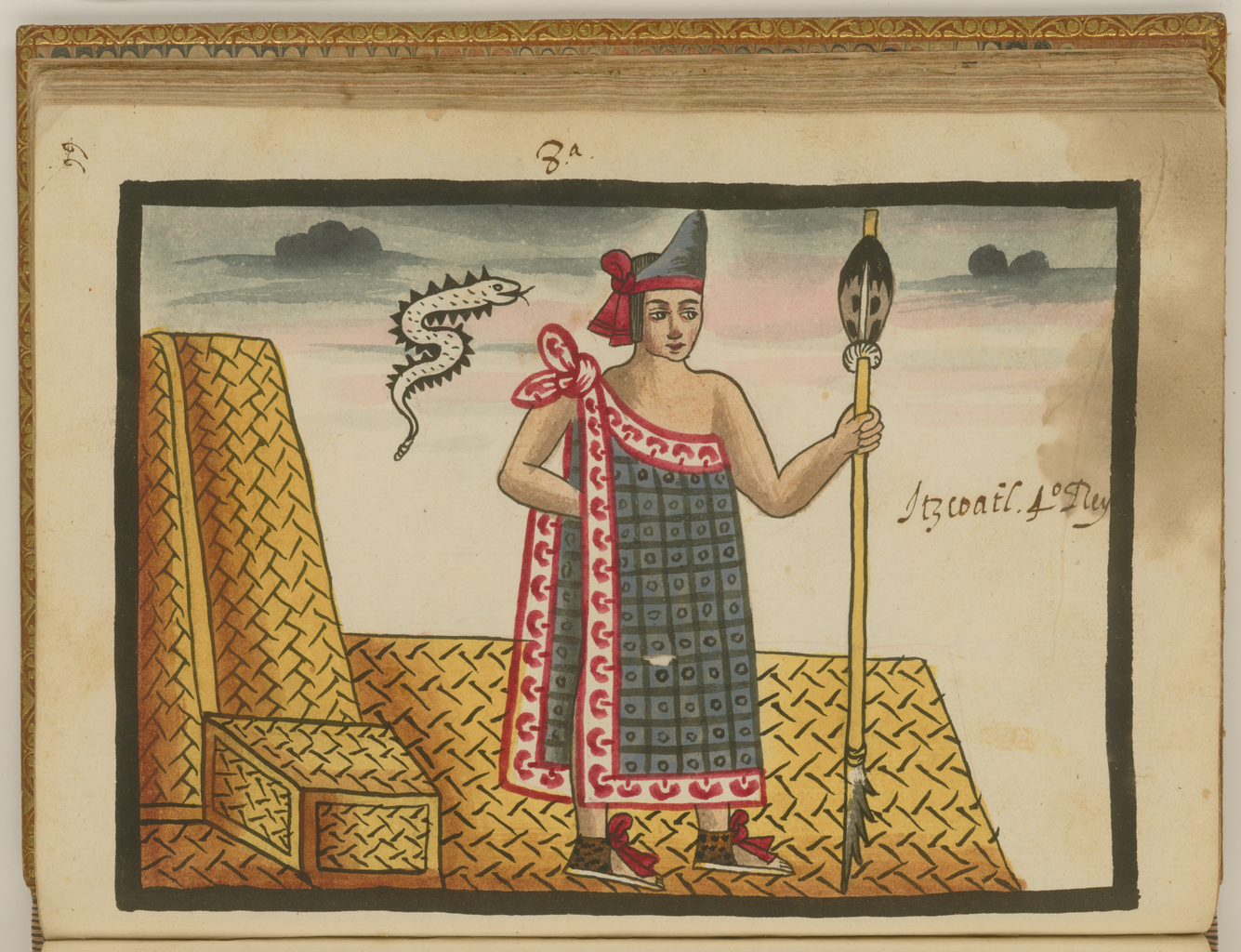 The Tovar Codex, attributed to the 16th-century Mexican Jesuit Juan de Tovar, contains detailed information about the rites and ceremonies of the Aztecs (also known as Mexica). The codex is illustrated with 51 full-page paintings in watercolor. Strongly influenced by pre-contact pictographic manuscripts, the paintings are of exceptional artistic quality. The manuscript is divided into three sections. The first section is a history of the travels of the Aztecs prior to the arrival of the Spanish. The second section, an illustrated history of the Aztecs, forms the main body of the manuscript. The third section contains the Tovar calendar. This illustration, from the second section, shows Itzcóatl, holding a spear or scepter, standing on a reed mat and next to a basket-work throne. He hides his right hand under his tilma (cloak). Above him is an obsidian serpent. Itzcóatl (reigned 1427–40), whose name means obsidian serpent, was the fourth king of the Aztecs. He is dressed in the clothes of the highest priests and is credited with destroying the old Nahuatl records, consolidating legal authority in a totalitarian leader, and with establishing the practice of "flowery wars," which were waged to attain human sacrifices. Aztecs; Codex; Indians of Mexico; Indigenous peoples; Itzcóatl, Emperor of Mexico, 1381-1440; Kings and rulers; Mesoamerica; Tovar Codex